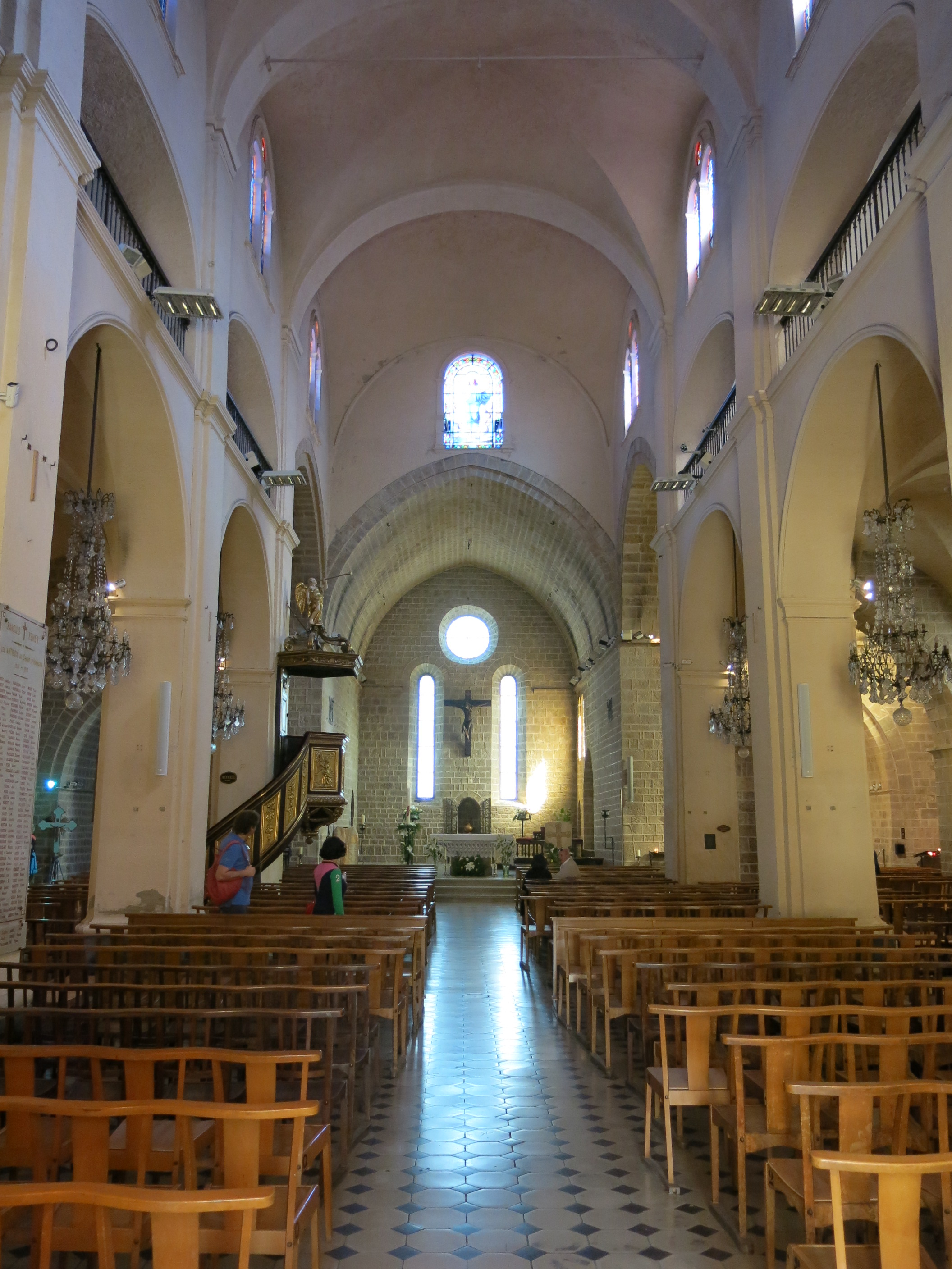 Nave of the cathedral of Antibes (Alpes-Maritimes, France).